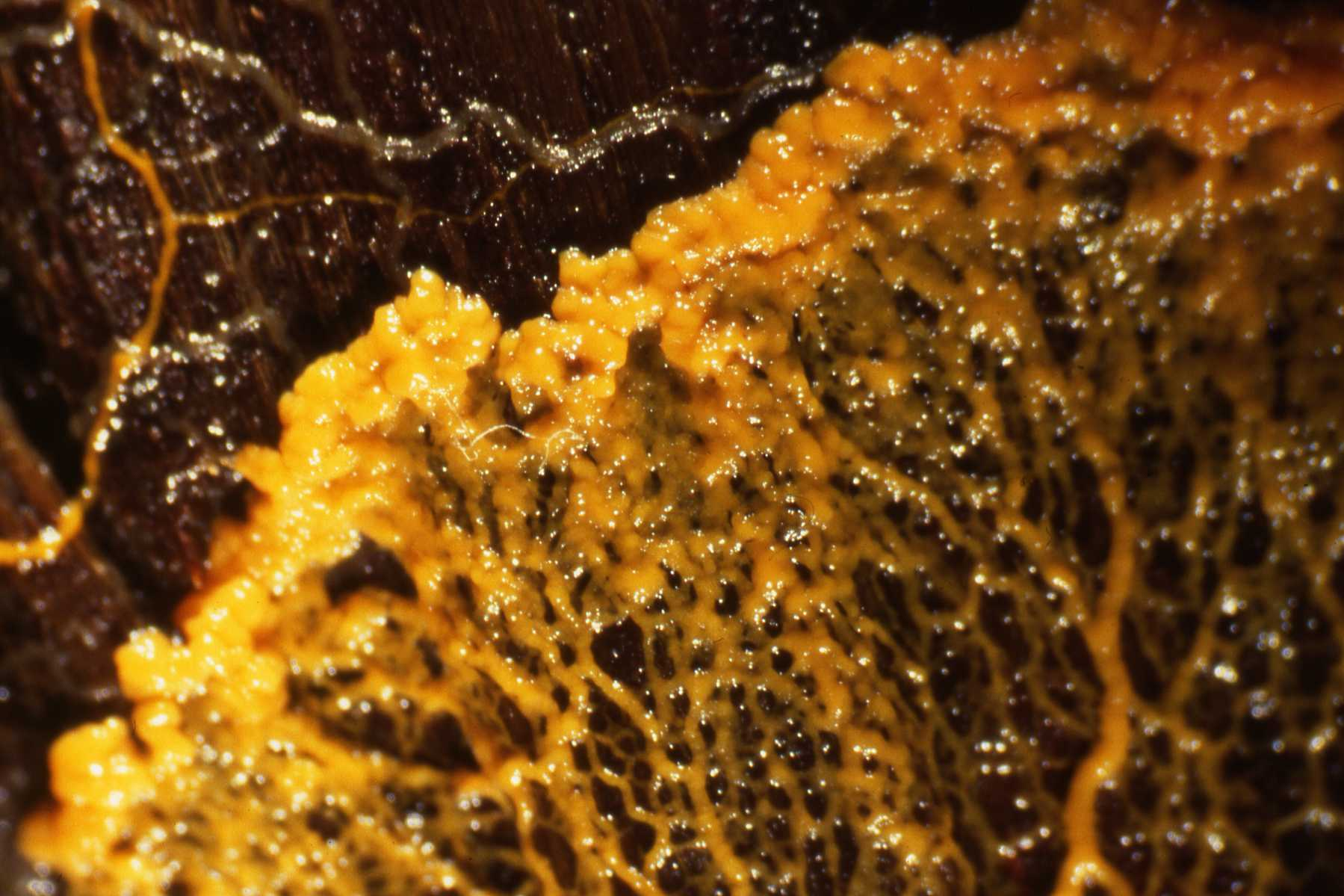 plasmodium